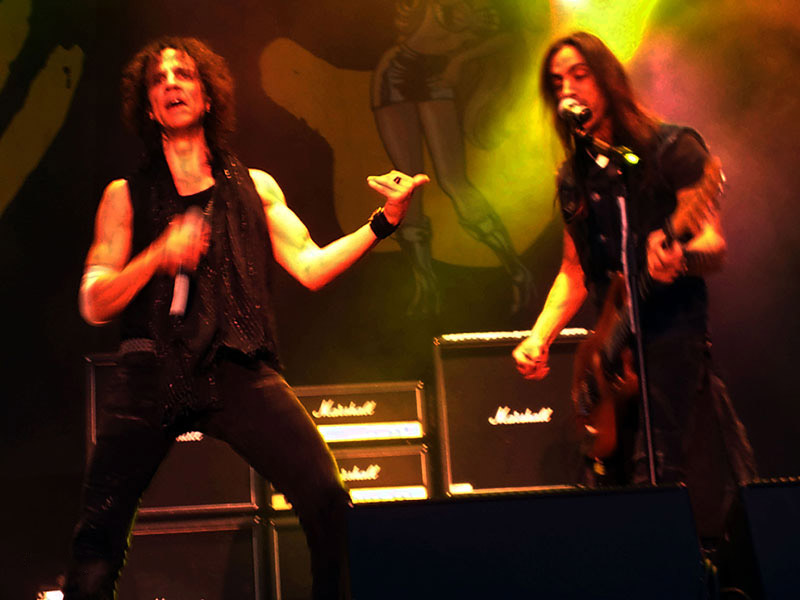 A photo of Gary Cherone and Nuno Bettencourt playing with the band Extreme at a rock festival in summer 2015